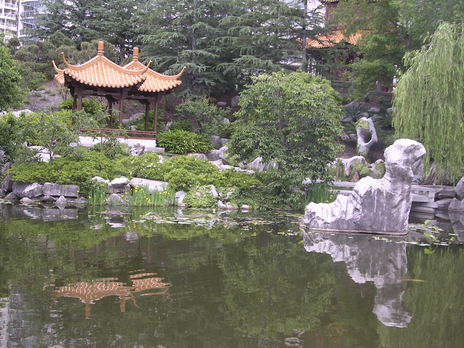 The Chinese Garden of Friendship, Sydney